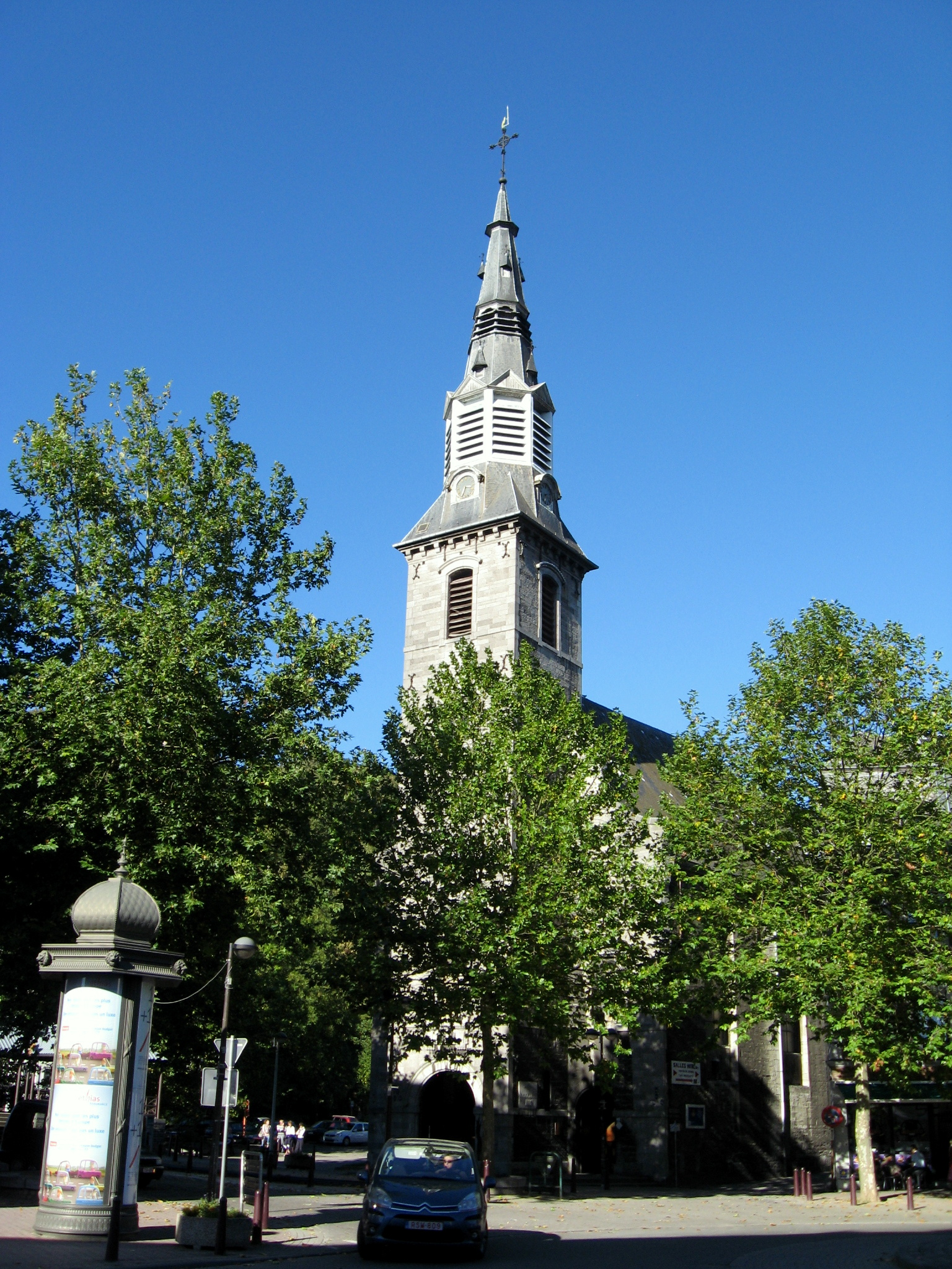 Church of Our Lady of the Récollets in Verviers, Liège, Belgium